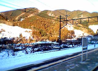 Ashigakubo Station on the Seibu Chichibu Line in Saitama Prefecture, Japan